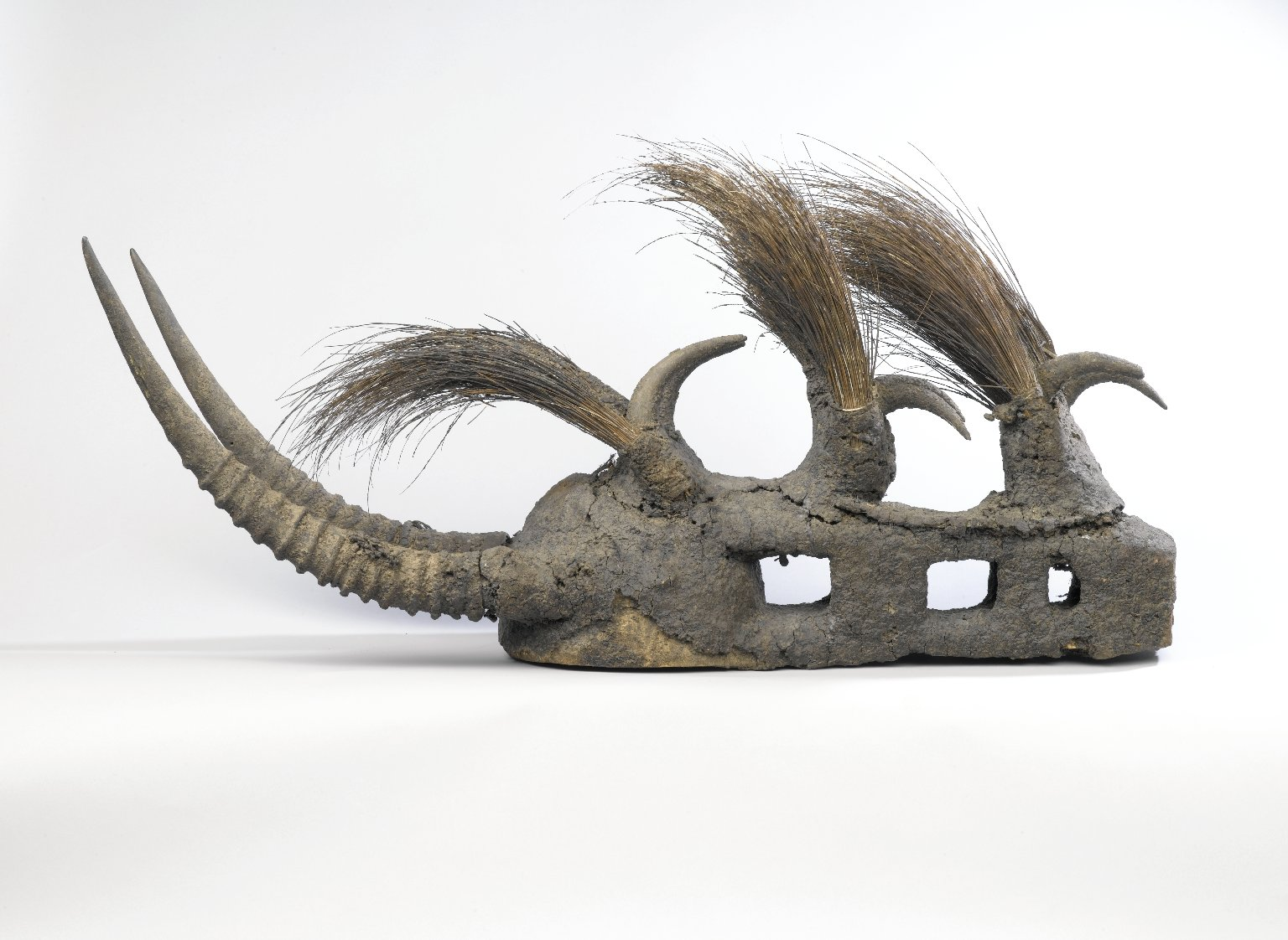 Animal mask to be worn on top of head. Long narrow head with pair of long antelope horns projecting horizontally from one end and three smaller pairs set along snout between pairs of bristles. Snout is pierced by 3 rectangular openings. CONDITION: Completely covered with thick sacrificial patina. Many losses from insect damage. large piece of patina missing right rear. Two front pairs of horns are loose.